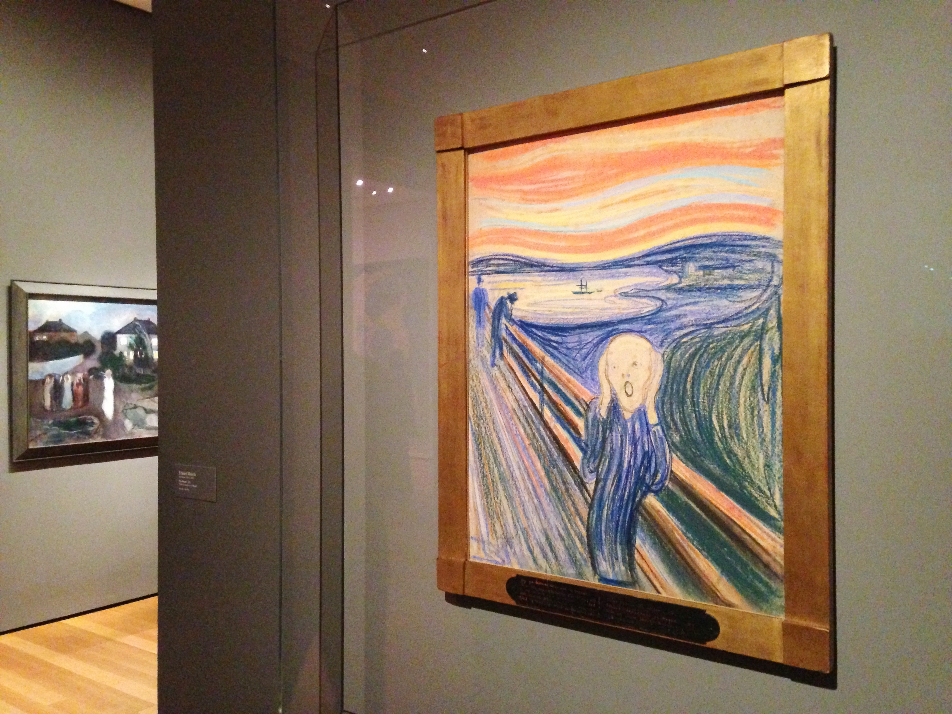 Pastel on paper on cardboard